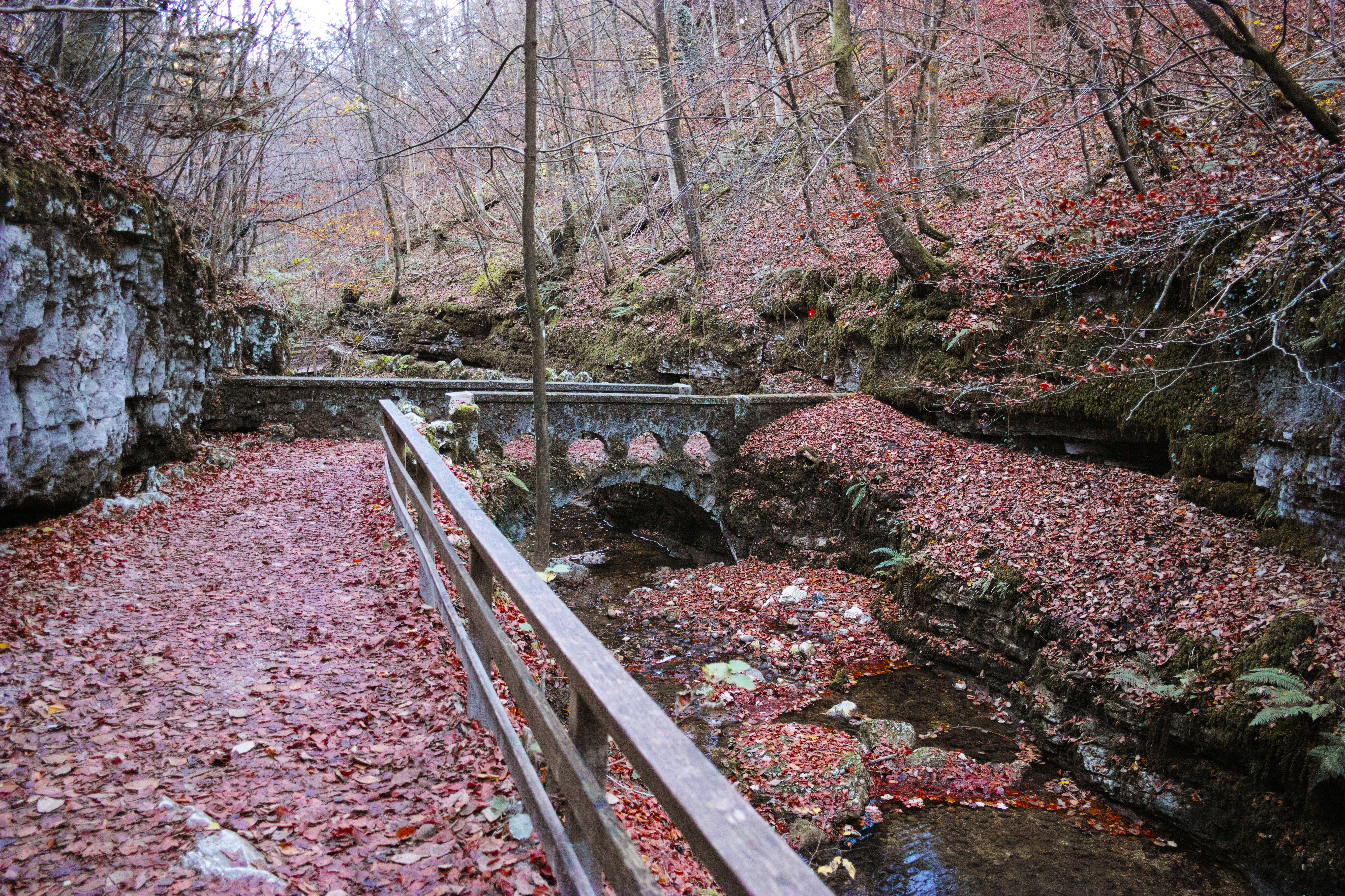 Path in the Verena Gorge, Rüttenen near Solothurn, Switzerland.